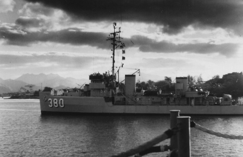 Photo of the USS Ruddy entering Pearl Harbor in 1955. Photo taken by Wikited from the starboard side of the USS Redstart during early morning.